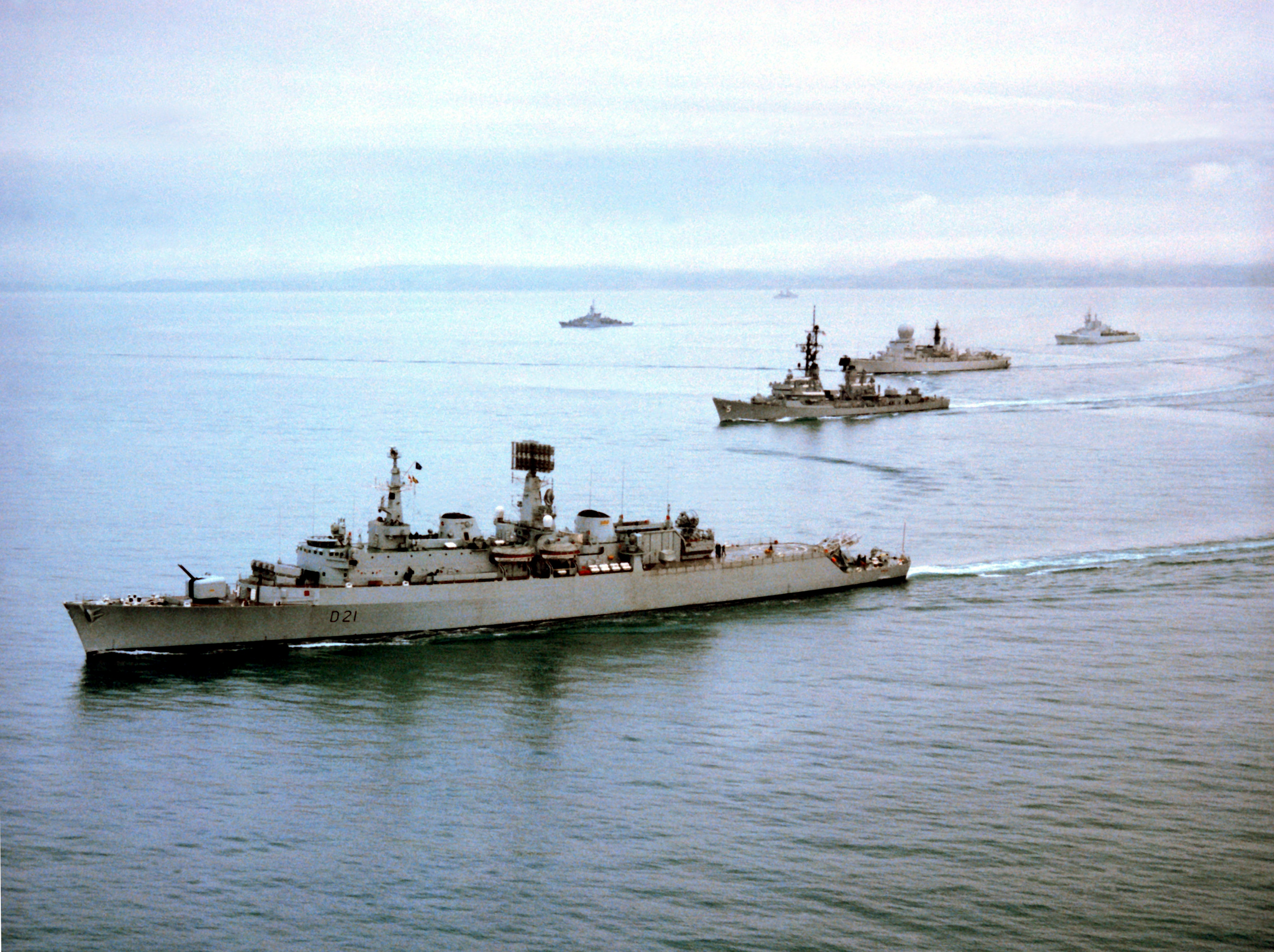 An aerial port view of ships from the Standing Naval Force, Atlantic, underway in formation. The ships are, from foreground to back: the Royal Navy destroyer HMS Norfolk (D21); the U.S. Navy guided missile destroyer USS Claude V. Ricketts (DDG-5); the Dutch destroyer HNLMS De Ruyter (F806); the Canadian destroyer HMCS Saguenay (DDH 206); the West Germany frigate Braunschweig (F225).